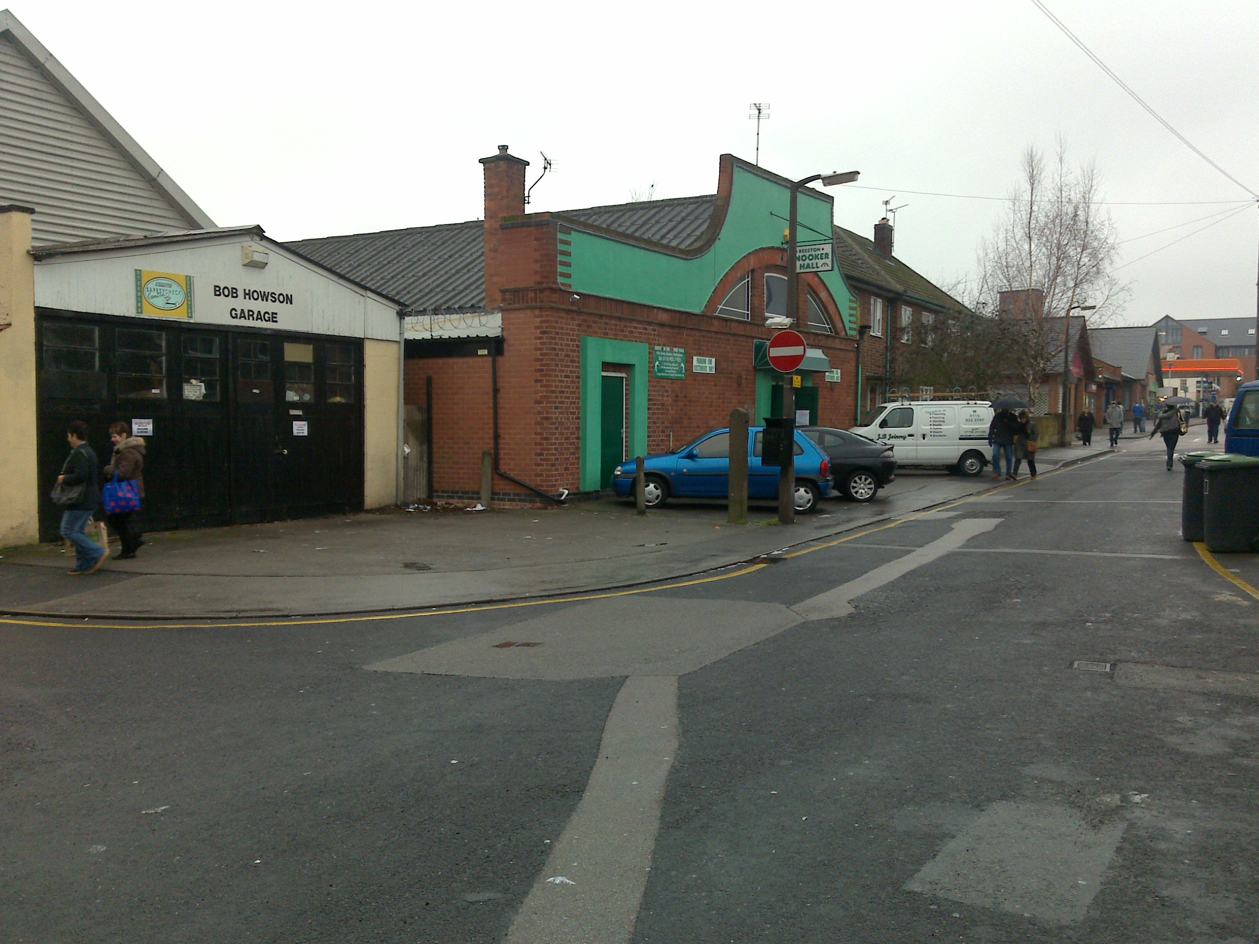 Garage and snooker club On Villa Street, Beeston. The Sainsbury's petrol station and Anglo-Scotian mills can be seen at the end of the road.